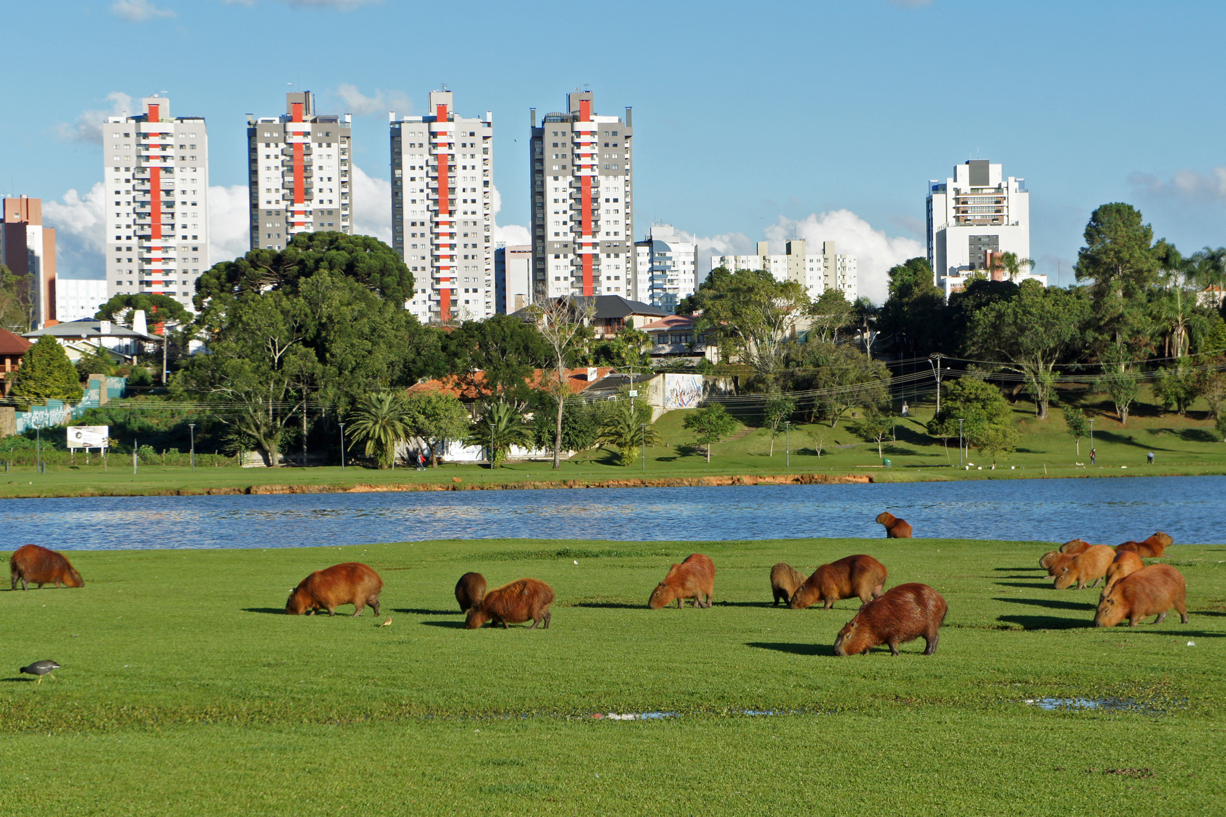 Capivaras grazing at Parque Barigüi, Curitiba, Brazil